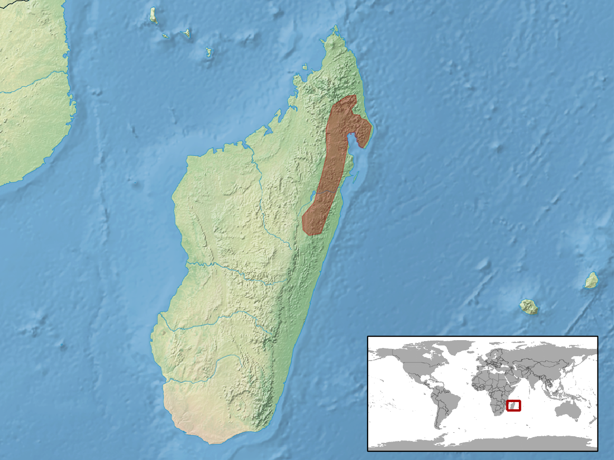 geographic distribution of Uroplatus lineatus (Native: Madagascar)